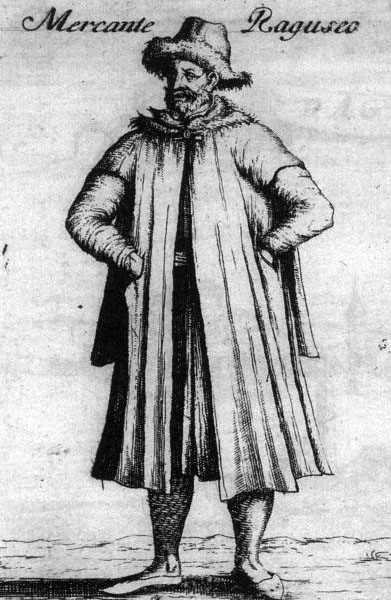 Source: Vincenzo Coronelli, Repubblica di Venezia. Terza parte, Venezia 1708, "Mercante Raguseo e Portalettere Raguseo" (Ragusan merchant and Ragusan mailman). Public domain image.